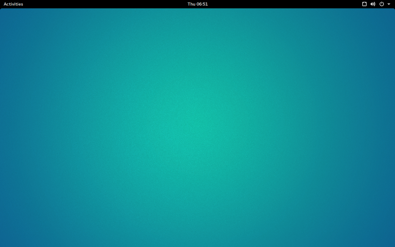 Ubuntu GNOME 16.04 Desktop